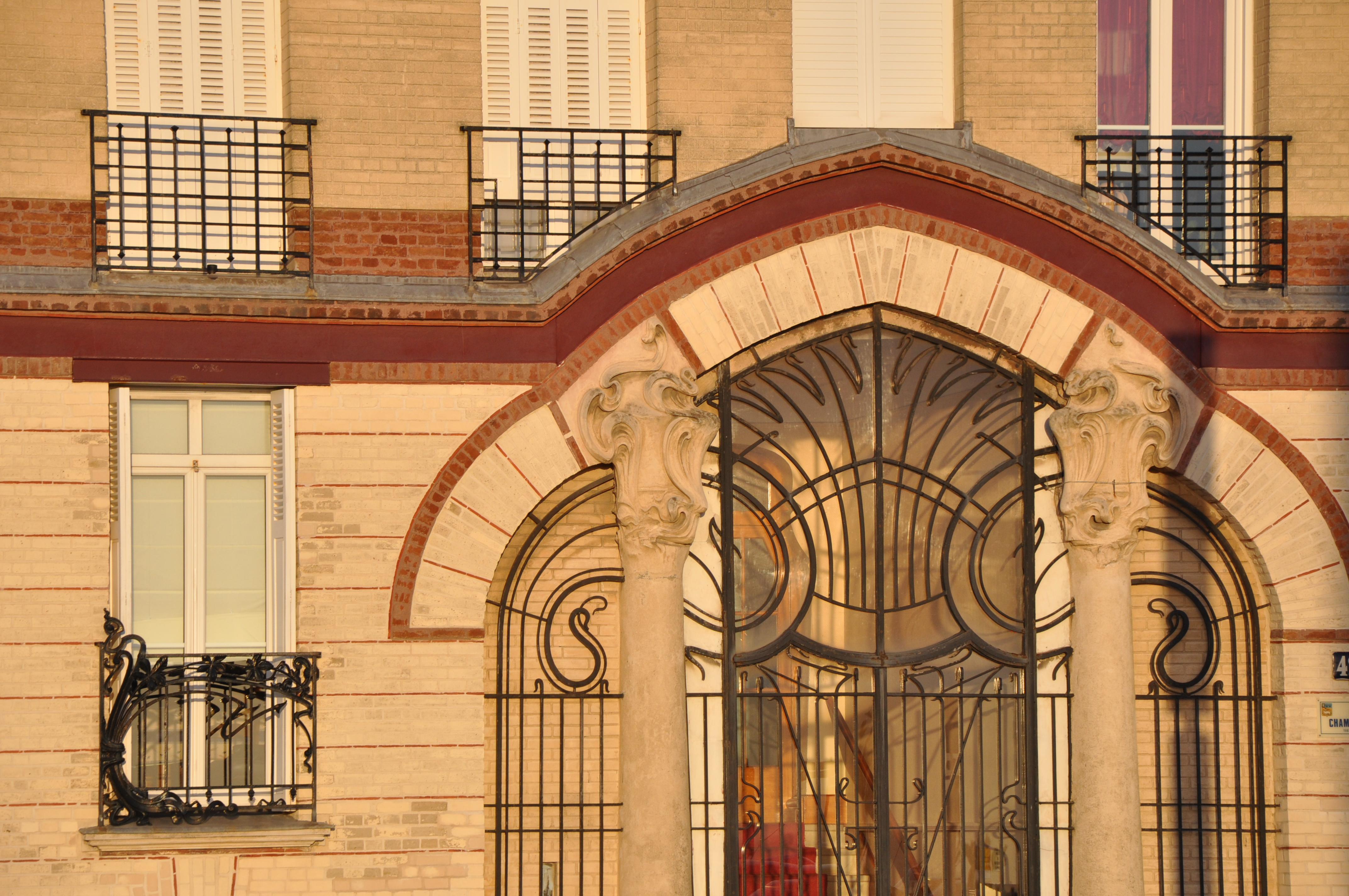 Le Havre (France, Normandy), art nouveau facade in front of beach.